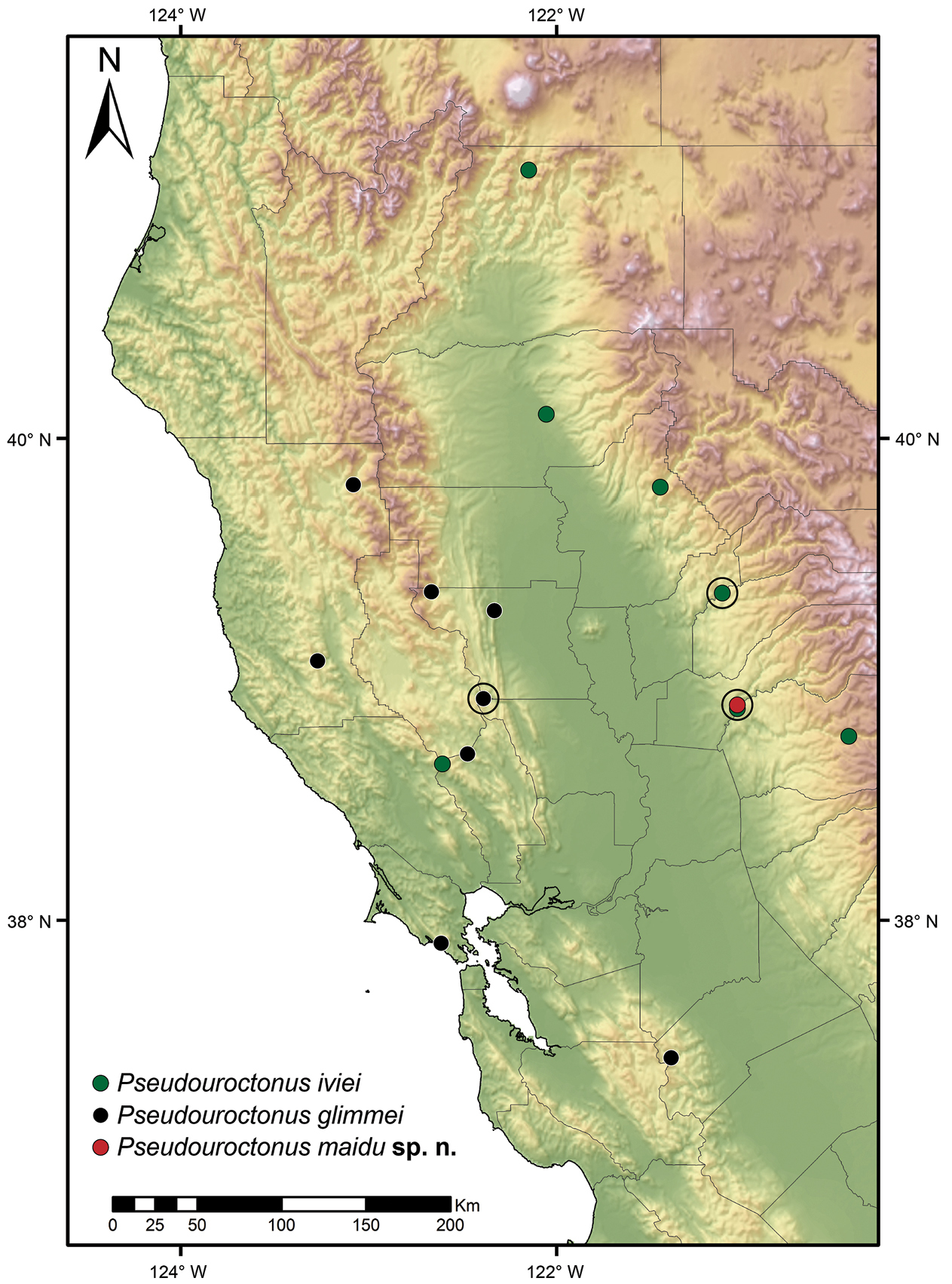 Graemeloweus, map of Northern California with locations and type locations (circled)